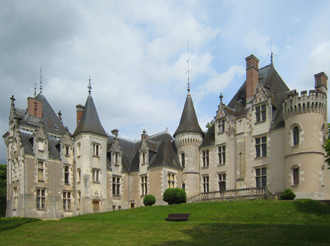 Castle of Candé near the town of Monts in France, owned by the Département d'Indre-et-Loire